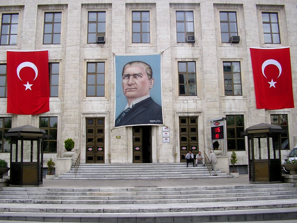 On streets of Istanbul, Youth and Sport Holiday